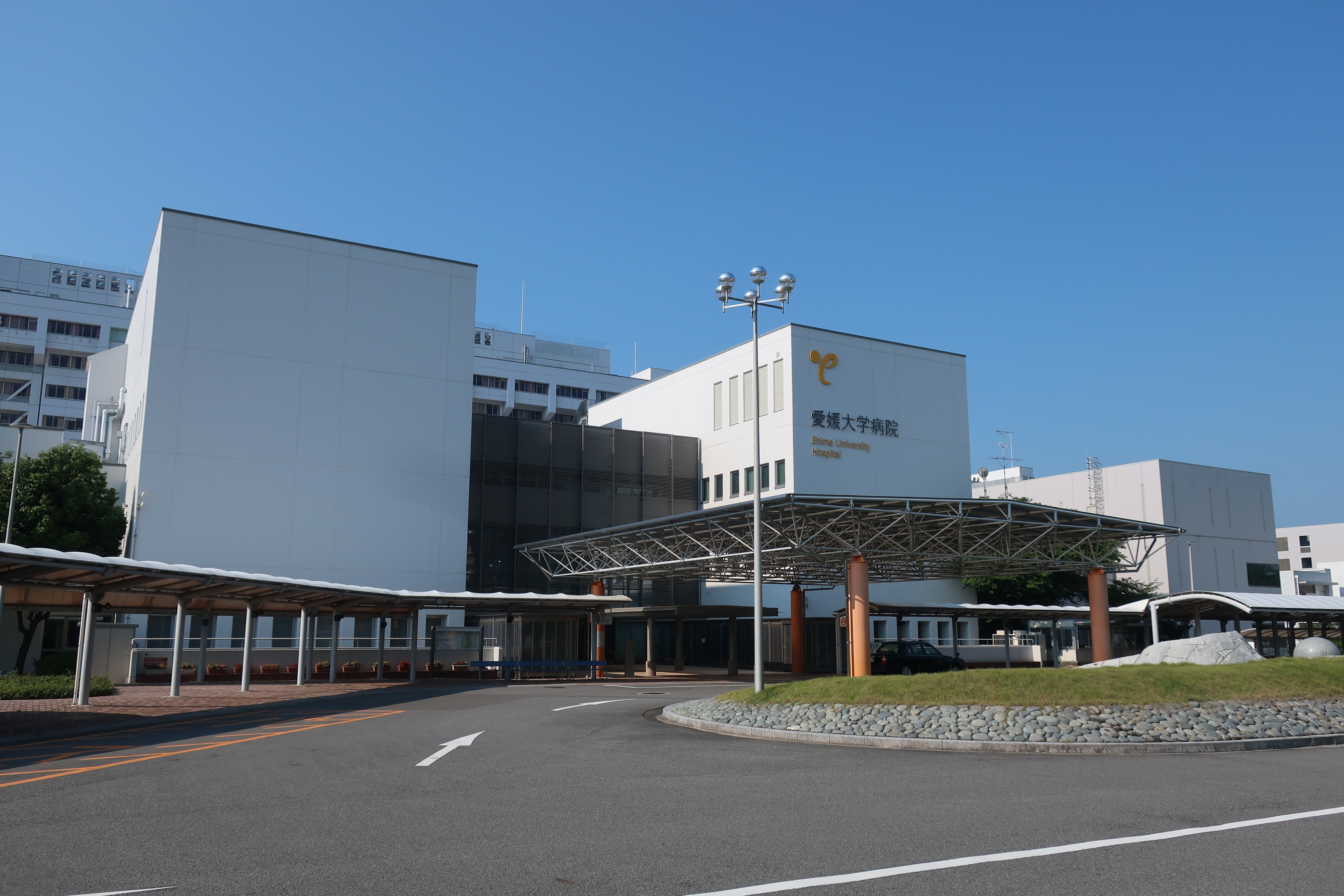 Ehime University Hospital